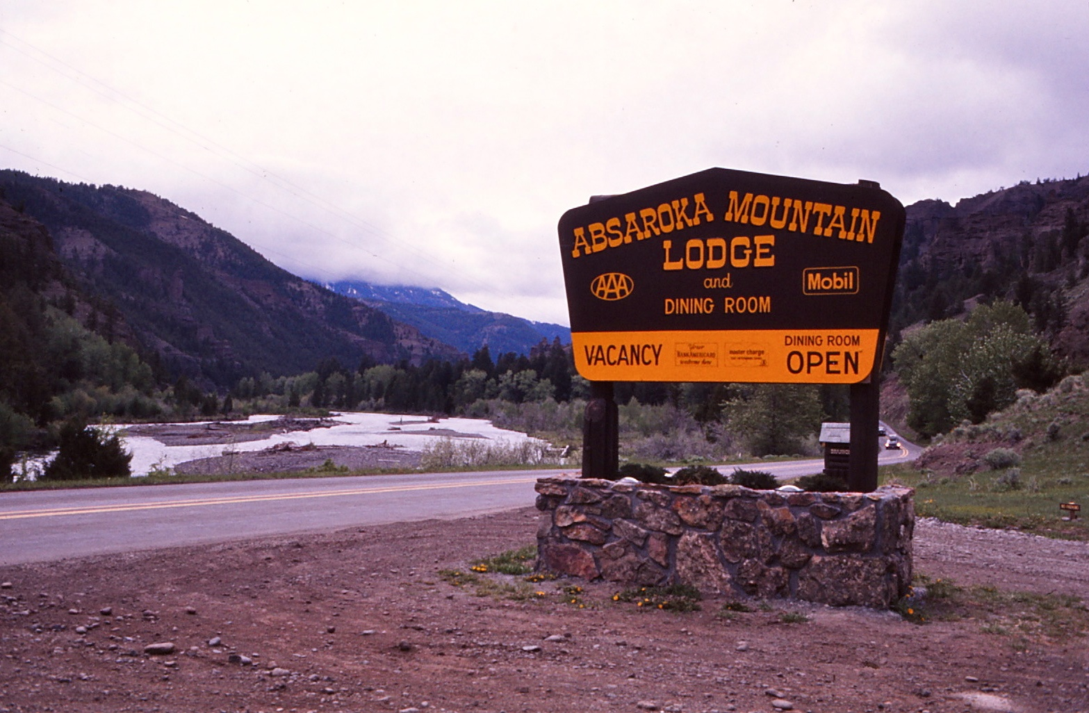 One of our favorite places ever!